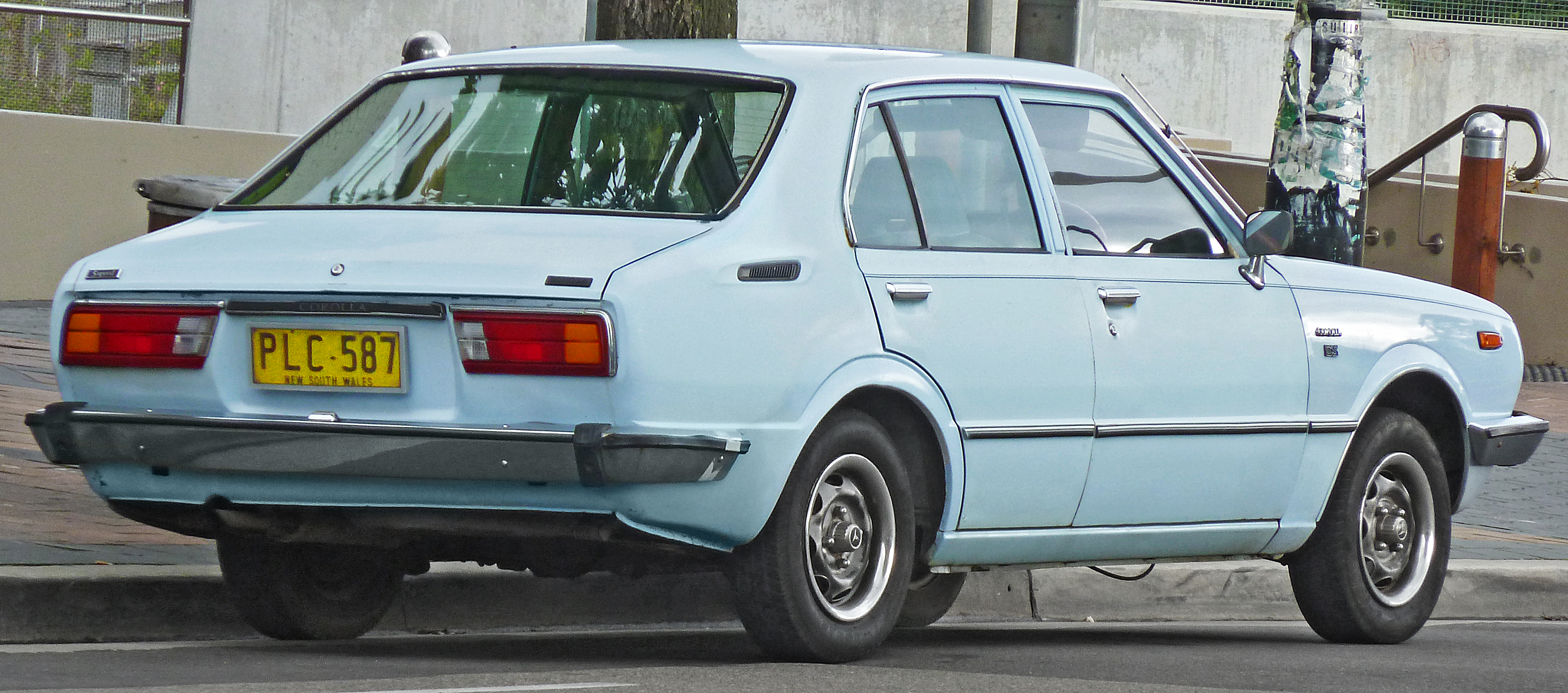 1981 Toyota Corolla (KE55R) CS sedan. Photographed in Kirrawee, New South Wales, Australia.